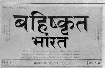 A page of the paper 'Bahishkrut Bharat' - The Discarded India. Second paper started in 1929 by Dr. Ambedkar for furthering the movement of the oppressed Indians.